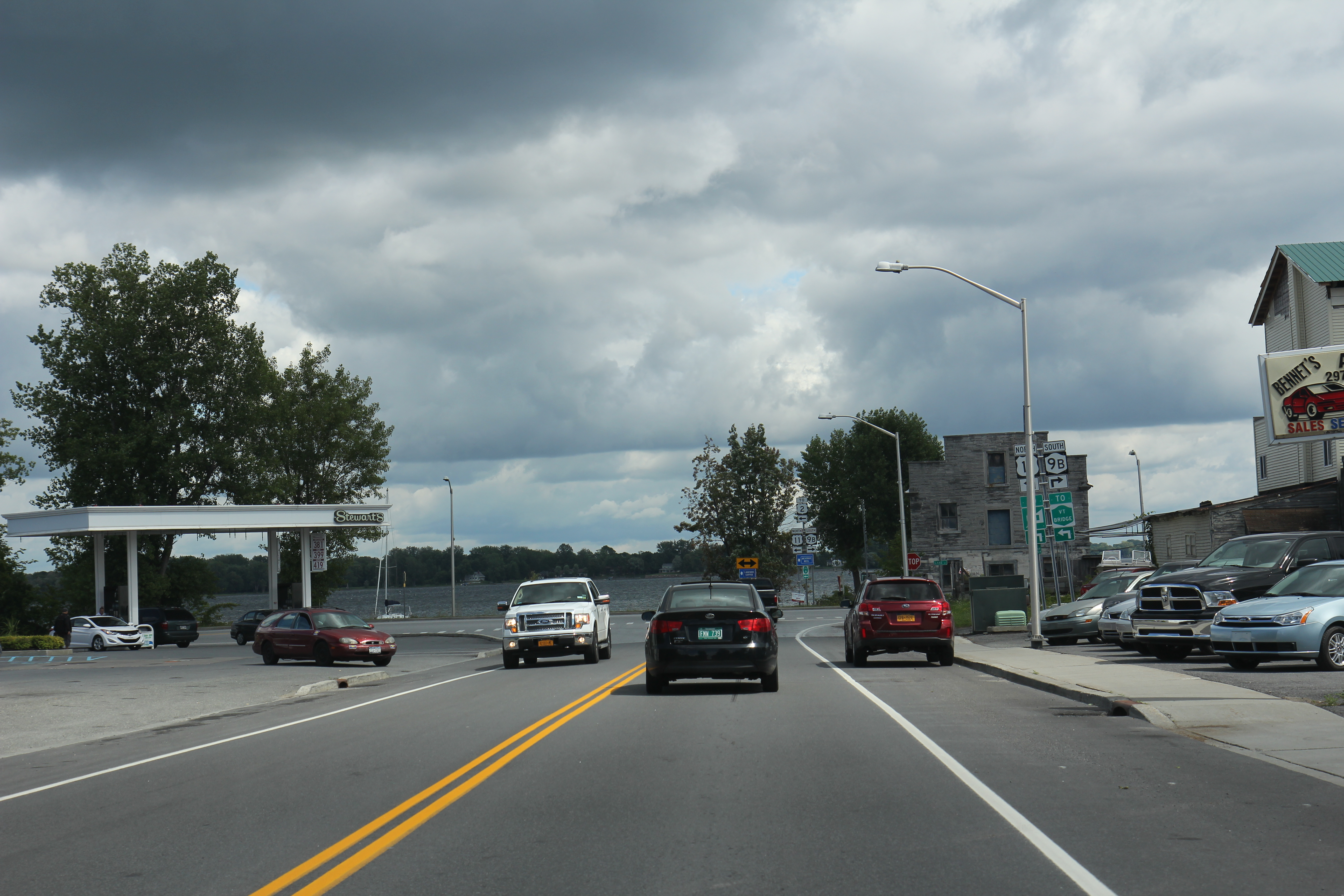 Looking east at Rouses Point, NY on US11.